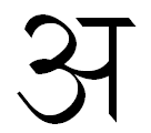 The अ character of the Devanagari script in JanaHindi. Screenshot of a typeface glyph, converted into PNG with AdobePhotoshop. This file is ineligible for copyright and therefore in the public domain because it consists entirely of information that is common property and contains no original authorship.